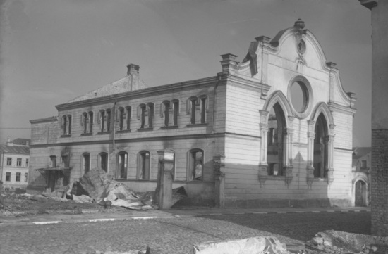 Šiauliai Choral Synagogue during WWII. Built in XIX centuary. Destroyed in 1945-1946.